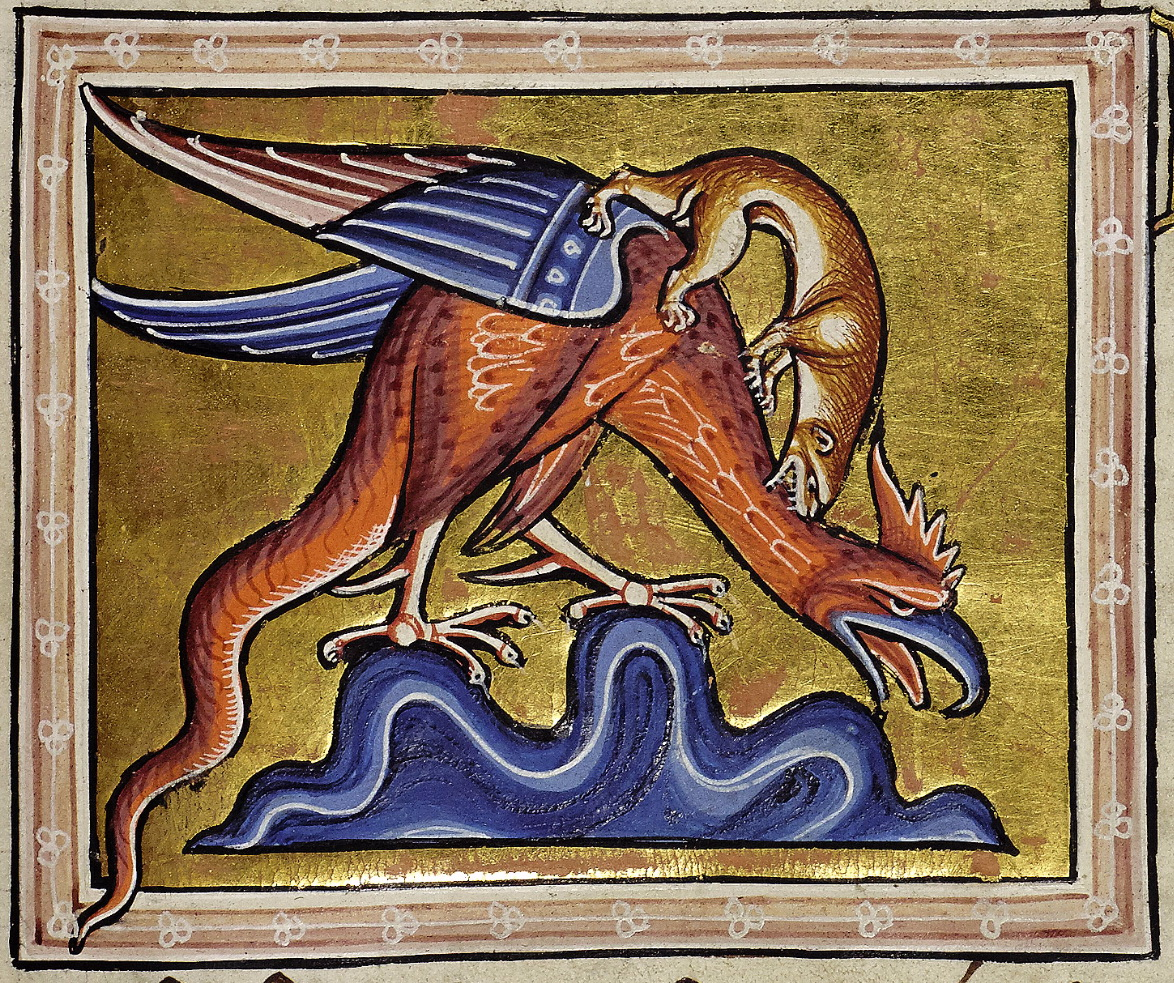 Aberdeen Bestiary, folio 66 detail, Basilisk